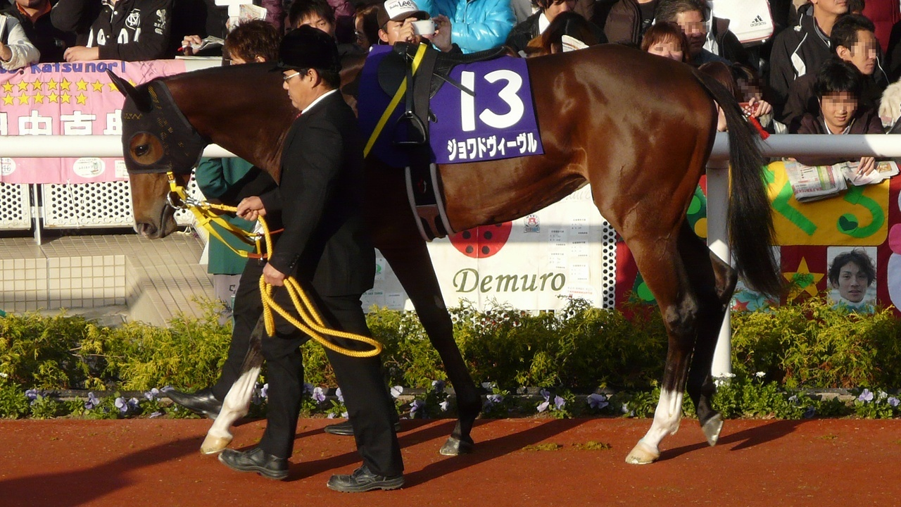 Joie-de-Vivre20111211(1)